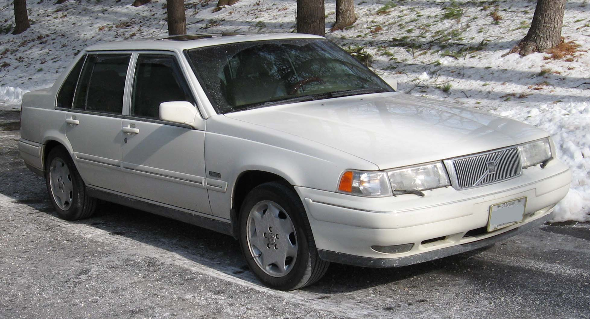 Volvo 960 photographed in USA.